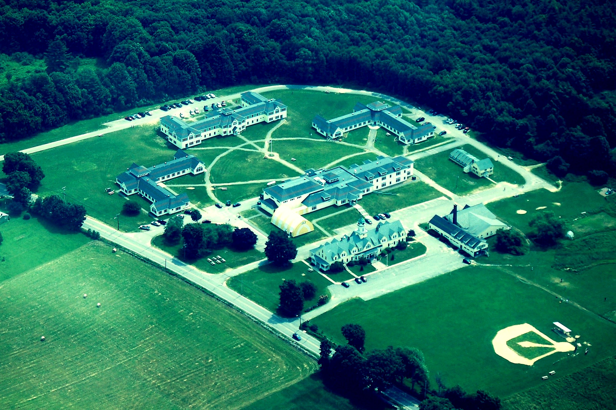 Photo taken by Richard B. Johnson from his Grumman Cheetah.